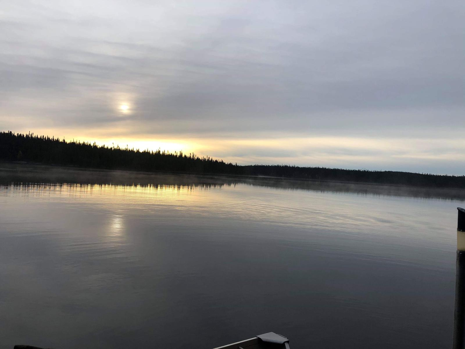 Lac Bouteroue, Québec